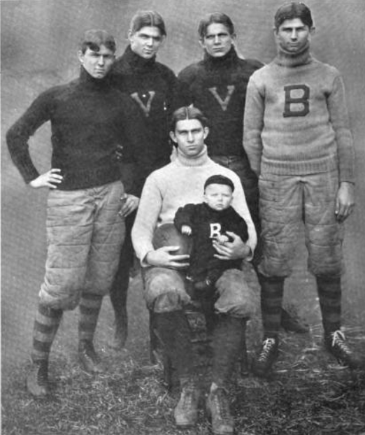 The football playing Blake brothers of early Vanderbilt. Left to right: Frank Blake, Bob Blake, Dan Blake, Vaughn Blake and in the middle is Weldon Blake.